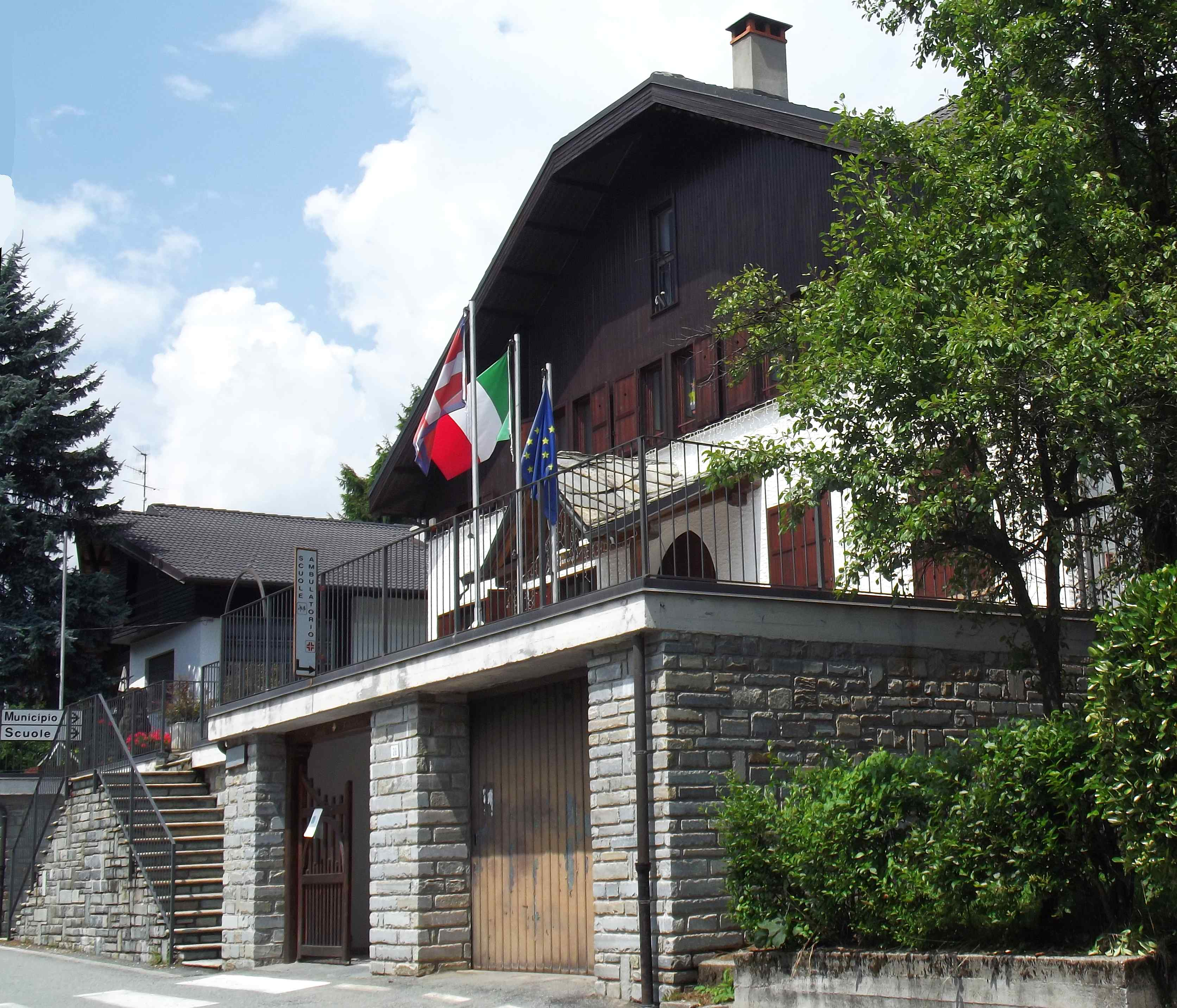 Cantoira (TO, Italy): town hall